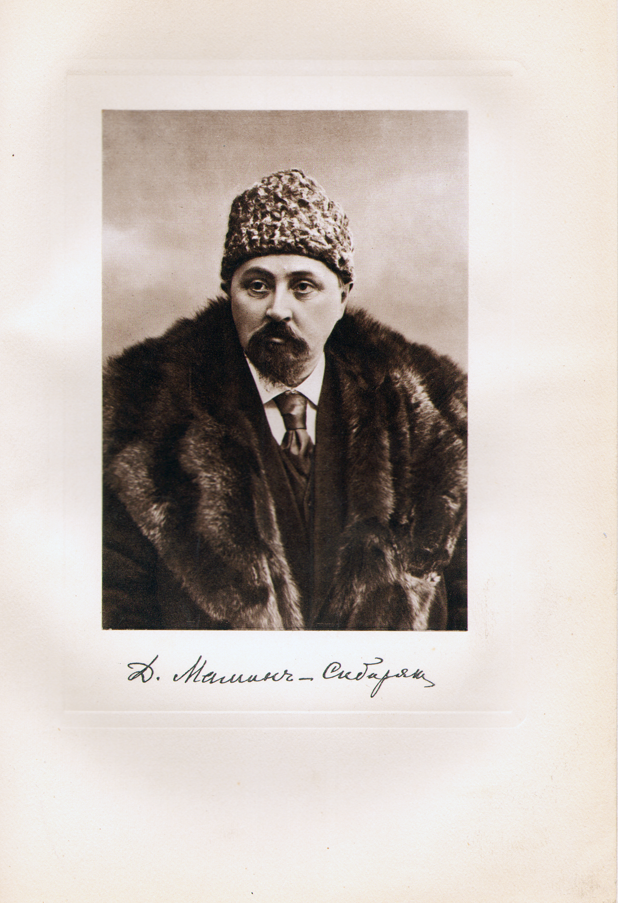 Dmitry Narkisovich Mamin-Sibiryak (1852-1912)